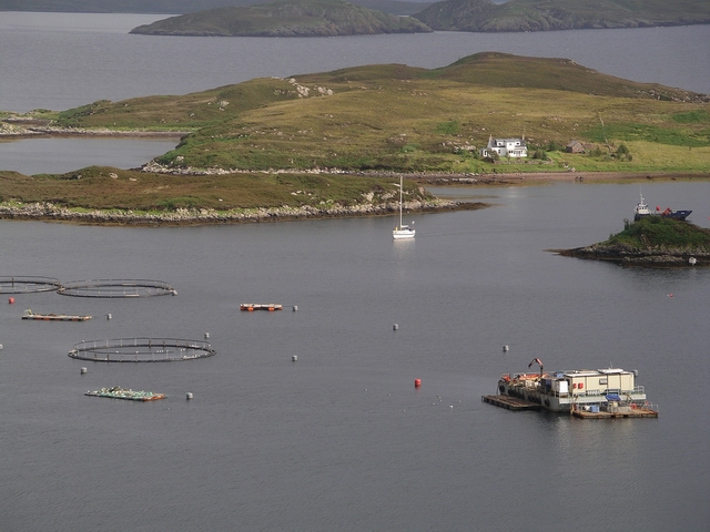 The Anchorage, Tanera Mor. A sheltered haven in the lee of the largest of the Summer Isles. Looking SE, with some fish farms in the foreground, and Horse Island behind.